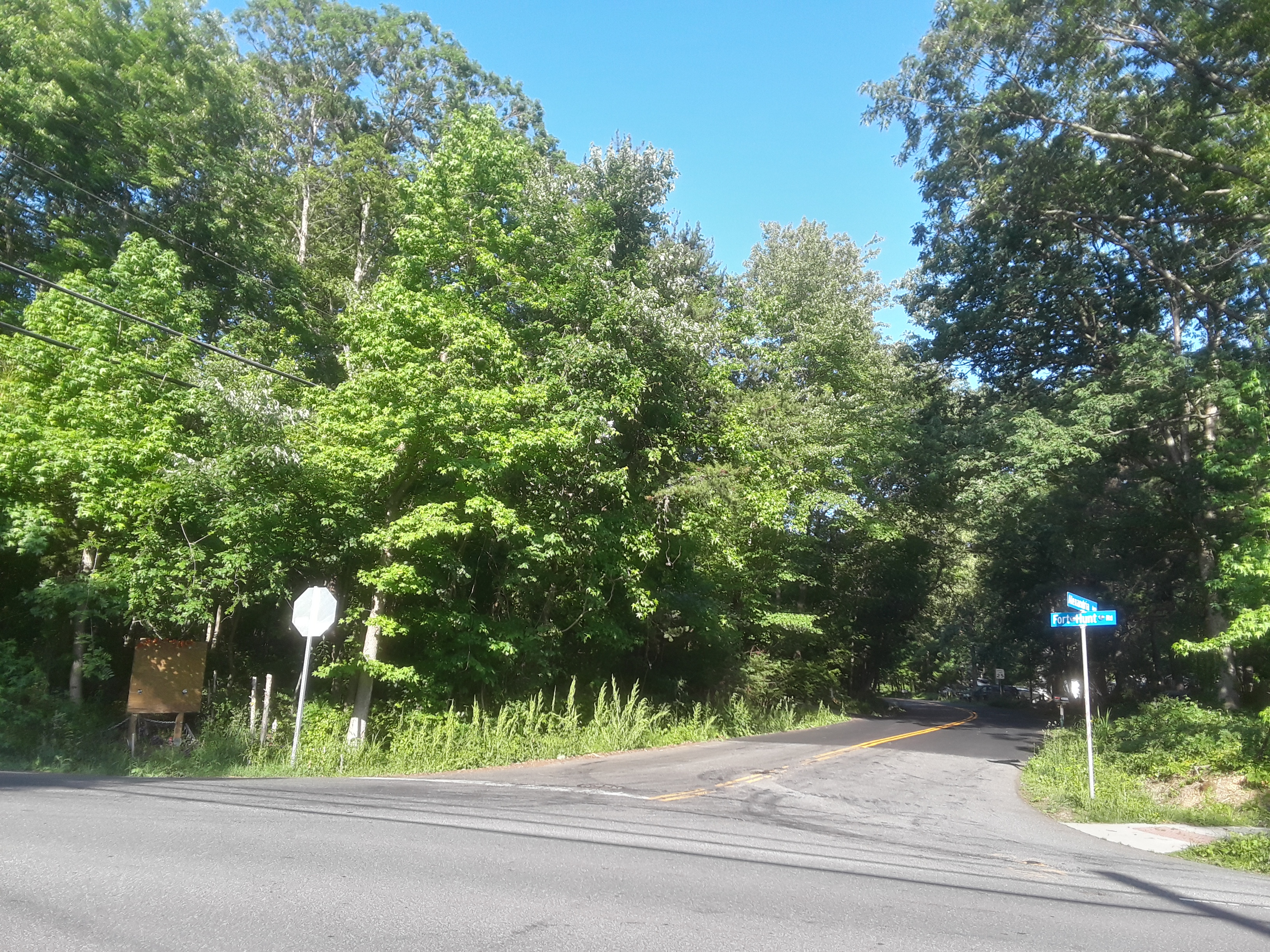 Intersection of Fort Hunt Rd. and Alexandria Ave., Fort Hunt, Virginia, site of the 2017 shooting of Bijan Ghaisar